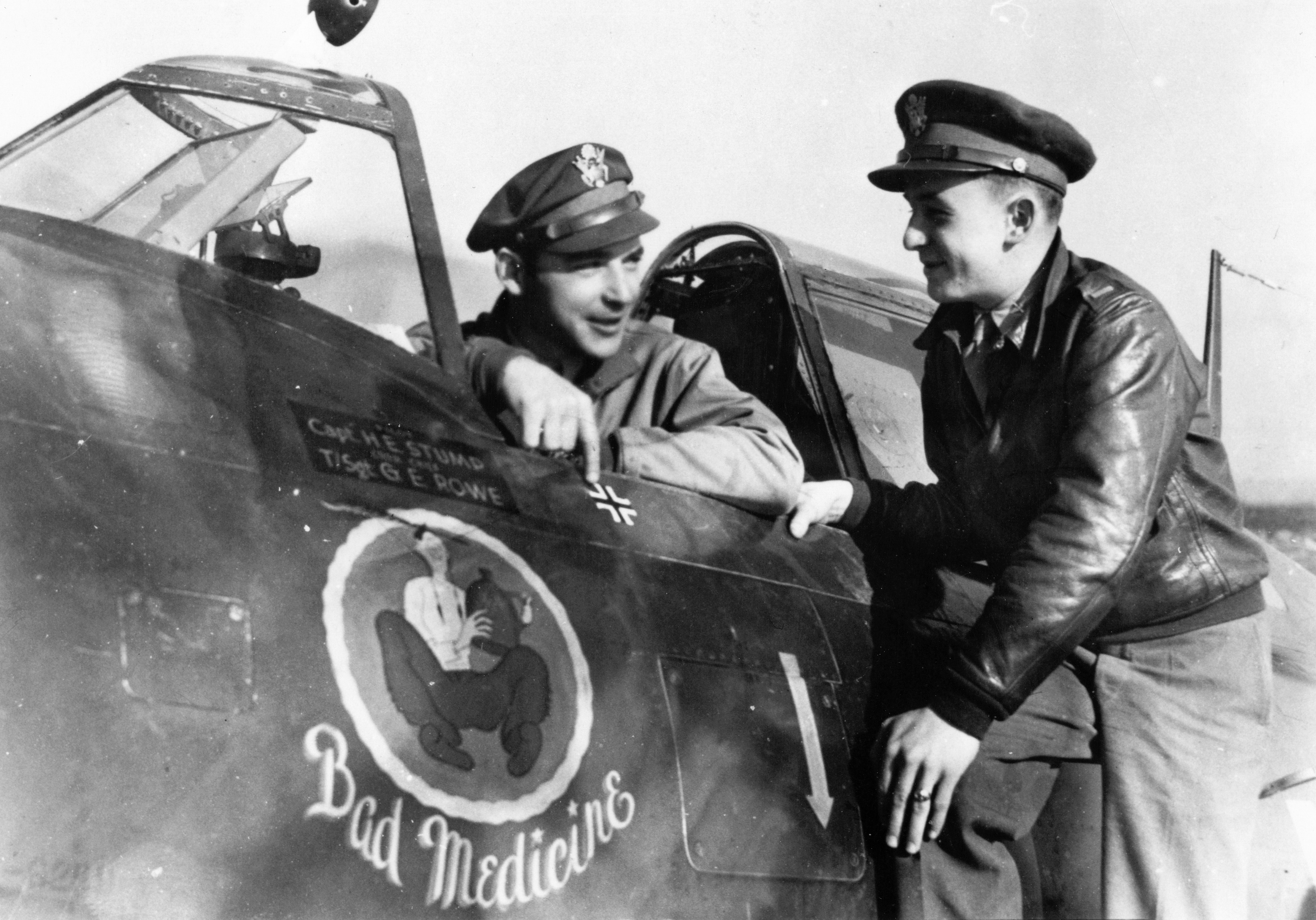 Captain Harold E. Stump and Second Lieutenant George J. Hays of the 78th Fighter Group with a P-47 Thunderbolt nicknamed "Bad Medicine", 15 October 1943. Passed for publication 15 Oct 1943. Handwritten caption on reverse: '22. 78FG. Cpt. Harold E. Stump in a/c. 2/Lt. George J. Hays on wing.' Printed caption on reverse: 'A Visit To An American Fighter Station. This is a pictorial series depicting the various aspects of life of one of the oldest American fighter groups over in England - operationally speaking. The boys are seen lounging around between missions - they play cards, read and just plan "shoot the bull". But, when they fly against the Germans, you can bet they'll come out on top. - They have maintained about a four to one ratio of "kills" against their own losses. Photo Shows:- Pointing to the swastika denoting his first Jerry-plane after some sixty-odd missions against the Luftwaffe is Captain Harold E. Stump, Cody, Wyoming, Thunderbolt pilot, stationed "somewhere in England". On his left is 2nd. Lt. George J. Hays, Leeds, Alabama, who has a half-hundred missions to his credit. Captain Stump's ship, "Bad Medicine", has proved just that to the German fliers in their "Big Leagues" of fighters over England. He got that Jerry on September, the day of the Emden raid. U.S. Pool/SG/H. Keystone. 22.' On reverse: Keystone Press and US Army General Section Press & Censorship Bureau [Stamps].